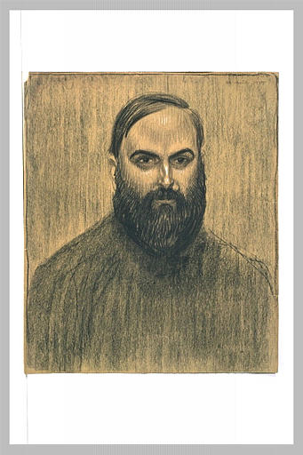 Portrait of Jean Roque (French, 1880-1925) made by Theophile Alexandre Steinlen the 30 of august 1915